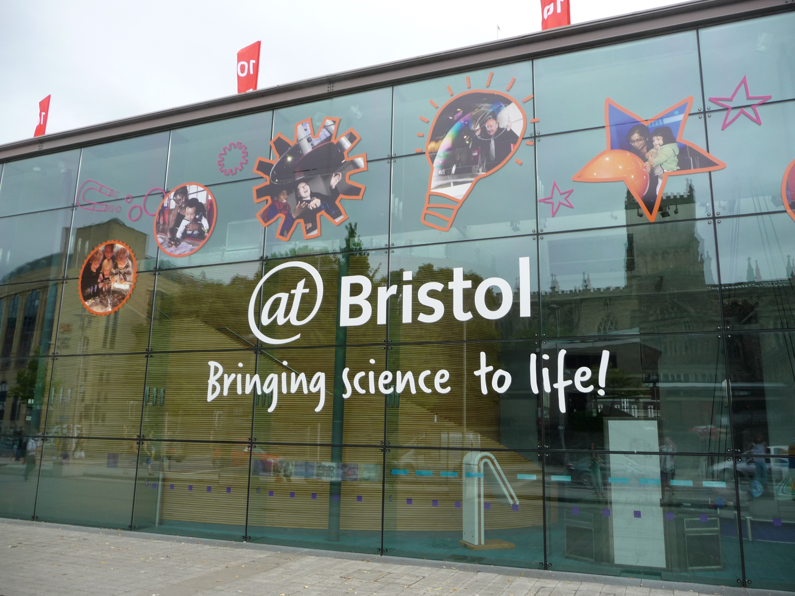 At Bristol